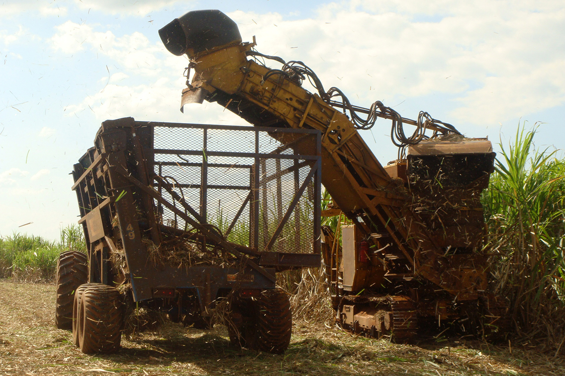 Mechanized sugarcane harvest operation, Piracicaba, Sao Paulo, Brazil